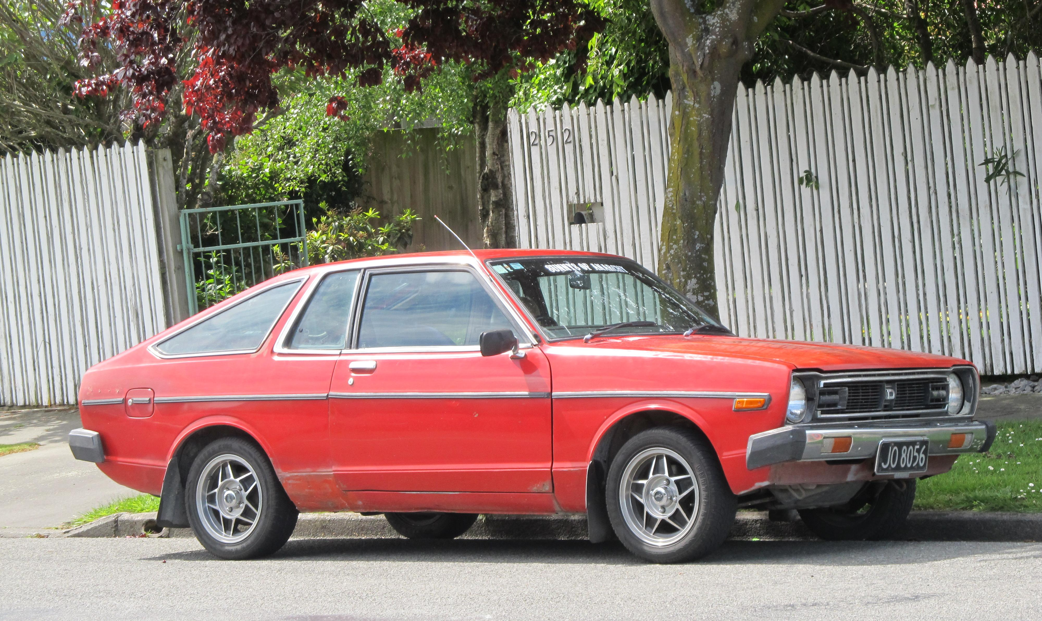 JO8056 Yep, this is the mystery car parked across from the previously uploaded Corolla SR coupe of similar vintage! Well done to GoldScotland71 for the closest guess... These are odd-looking cars, like a fastback wedge. It was quite surprising to see two Japanese coupes of similar vintage and size parked across from each other... This area of Christchurch is one I haven't really explored much, so seeing as I have the summer holidays coming up, I might do just that...